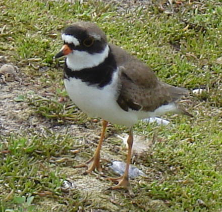 Semipalmated Plover in breeding plumage in Churchill, Manitoba, Canada